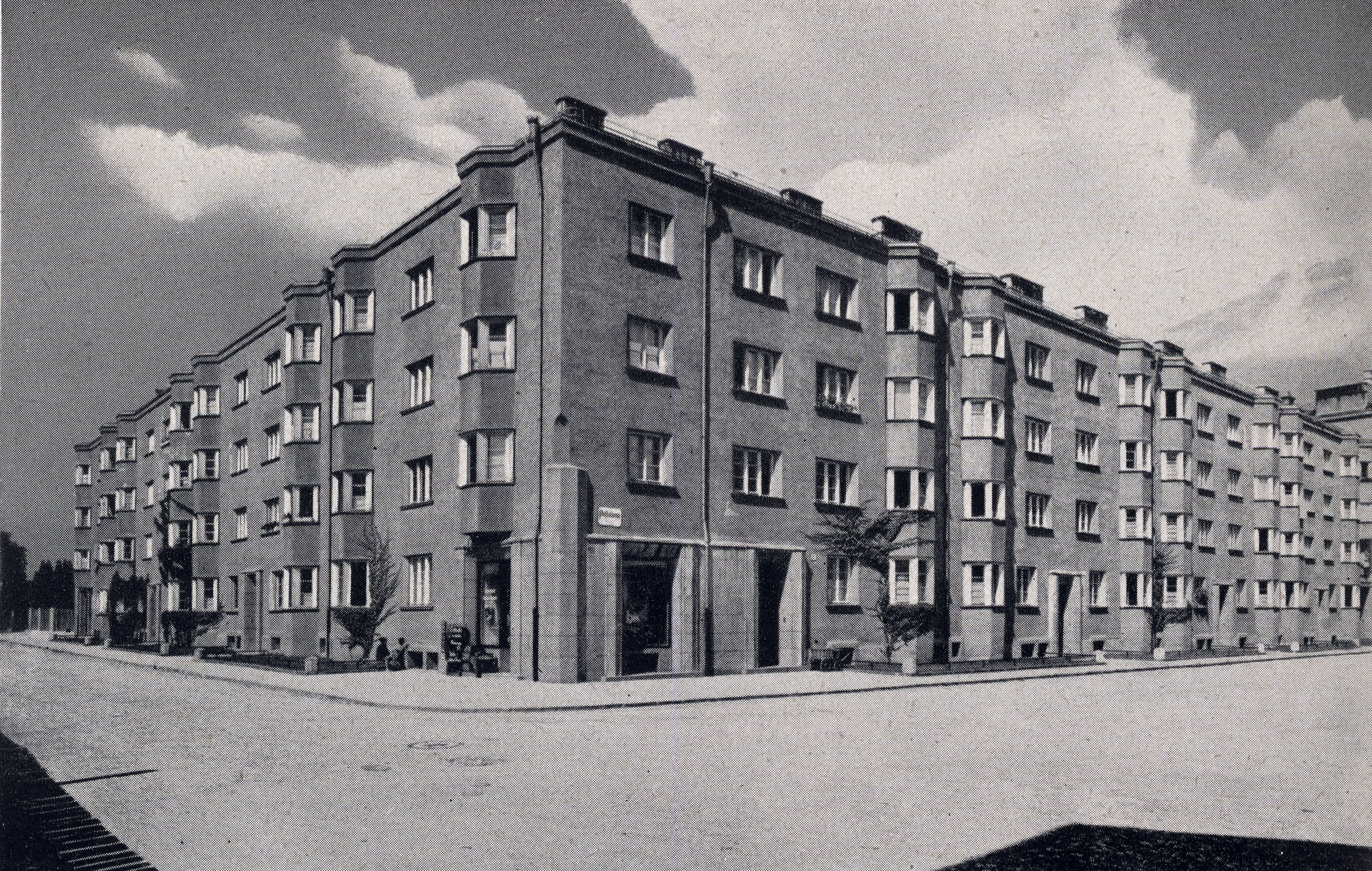 Social housing project "Pembaublock"